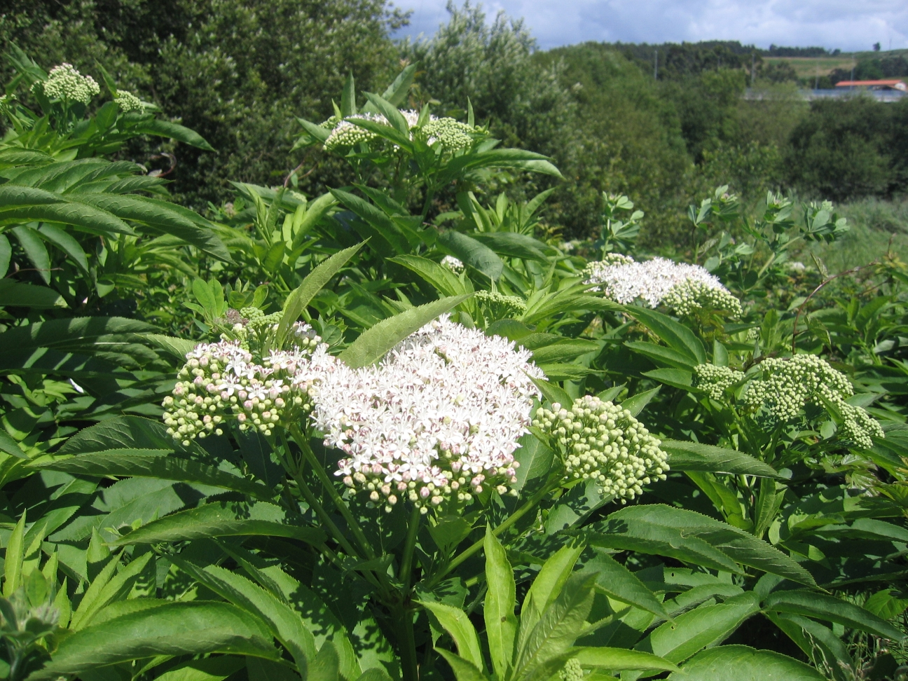 Sambucus ebulus. This photograph was taken on 2008-06-07 at Getxo in the Bizkaia province of the Basque Country (Europe), using a Canon PowerShot S50 camera. The original size was 2592x1944 pixels, it was reduced to the present size (1296x972 pixels) using the IrfanView freeware program.